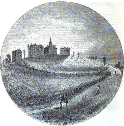 East Tennessee University, now the University of Tennessee, atop the Hill in Knoxville, Tennessee, USA, in 1858.